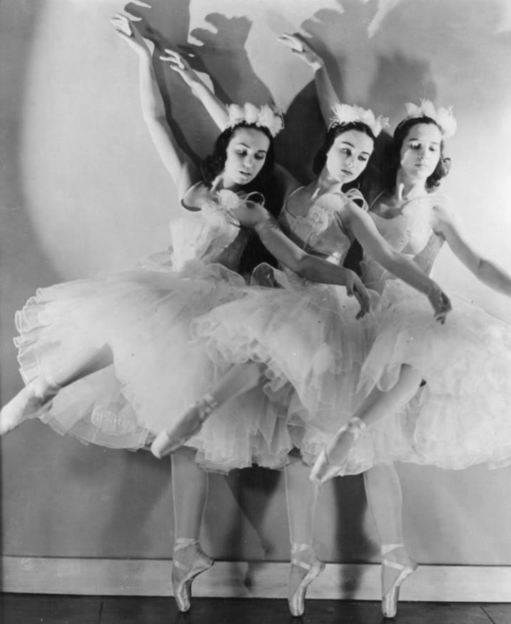 Photo of the Ballet Russe de Monte Carlo performing The Nutcracker.